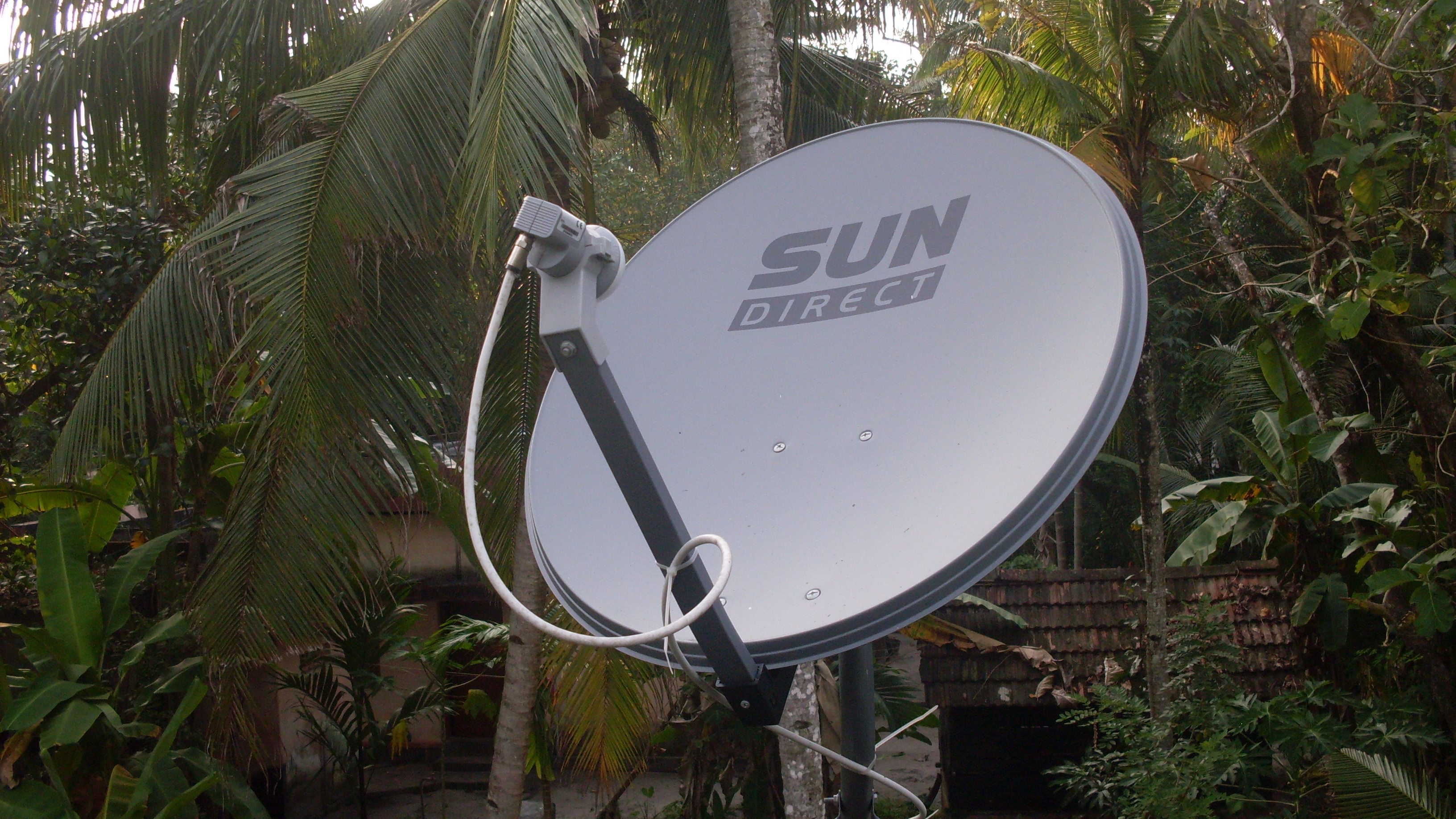 Sundirect hyderabad contact number 9347061242